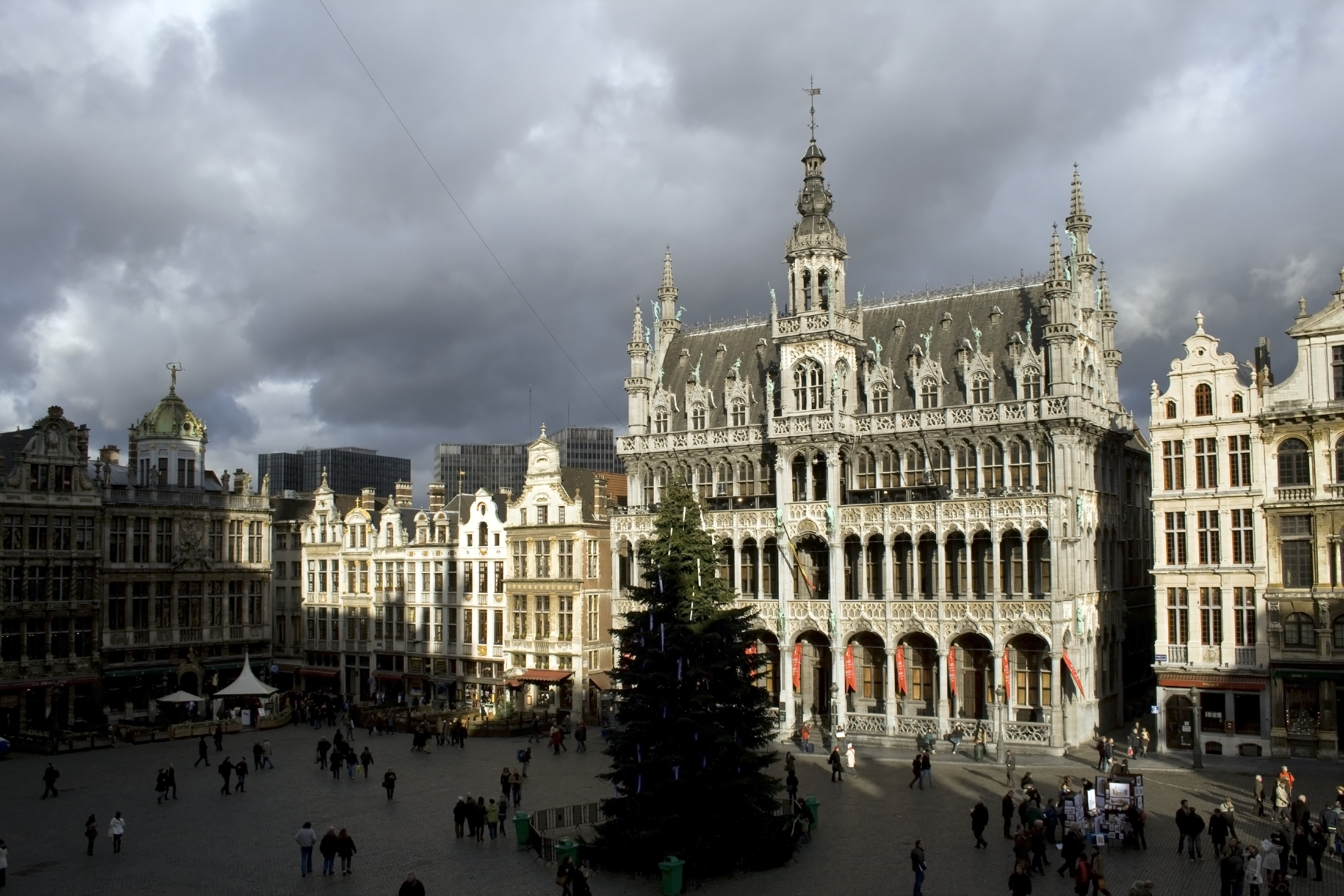 Grand-Place, Brussels, in the lights of a winter afternoon, from the balcony of the Swan house, with the Breadhouse in the middle.